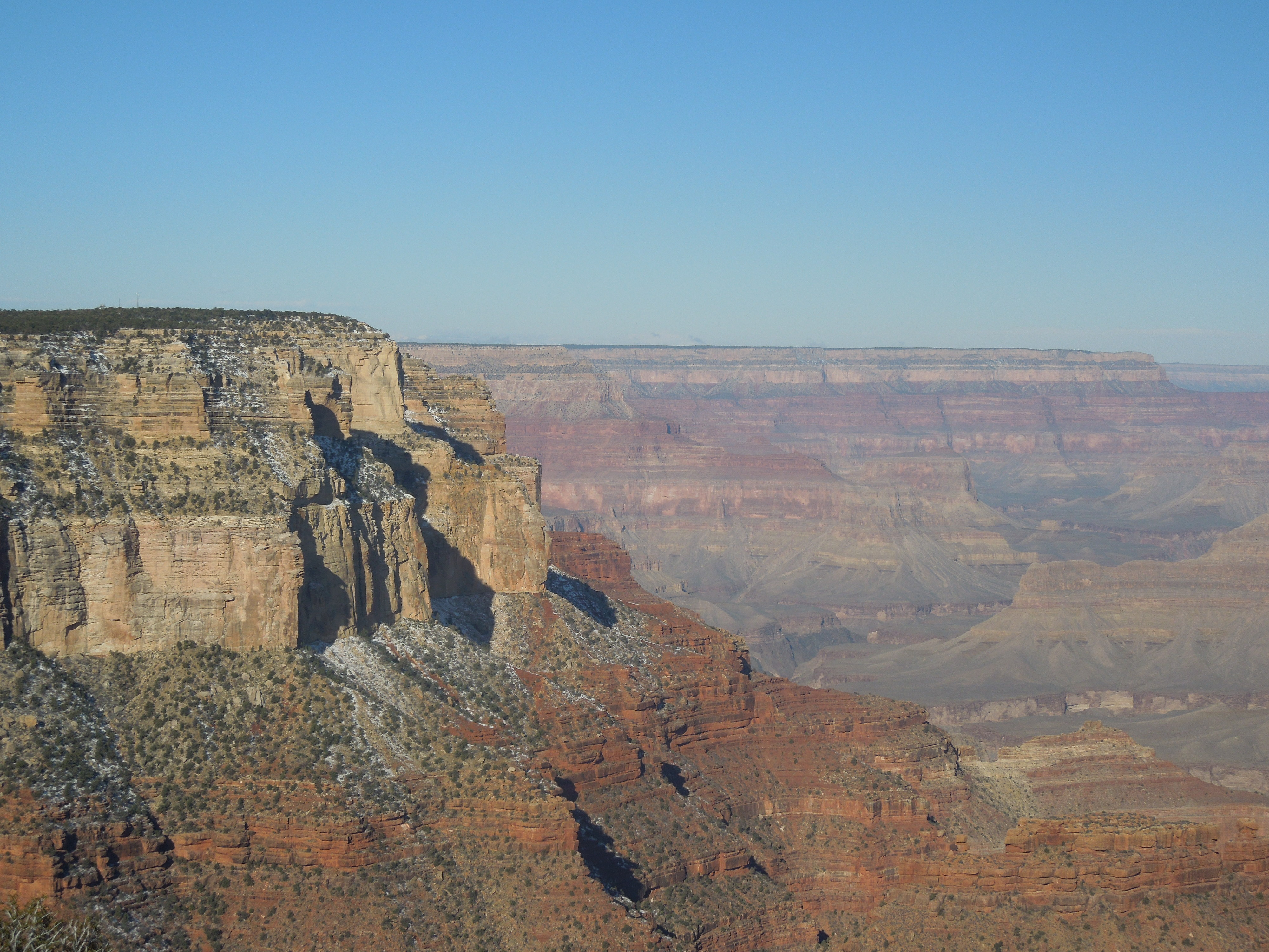 Grand Canyon in February 2012. (View westward(?), from Grand Canyon, South Rim). The geology sequence on the close-up cliffs, shows, 4-units (cliff, slope, cliff, slope, Kaibab, Toroweap, Coconino, Hermit) above the Supai Group, the "red beds", top units (4)-Esplanade Sandstone cliffs, and then the bedded-slopes of the (3)-Wescogame Formations; units 2 and 1, Manakacha and Watahomigi Formations, not in close-up.